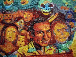 "Chicano Legacy" mural, detail view of Carlos Blanco Aguinaga — on the University of California, San Diego campus. Artist: Mario Torero